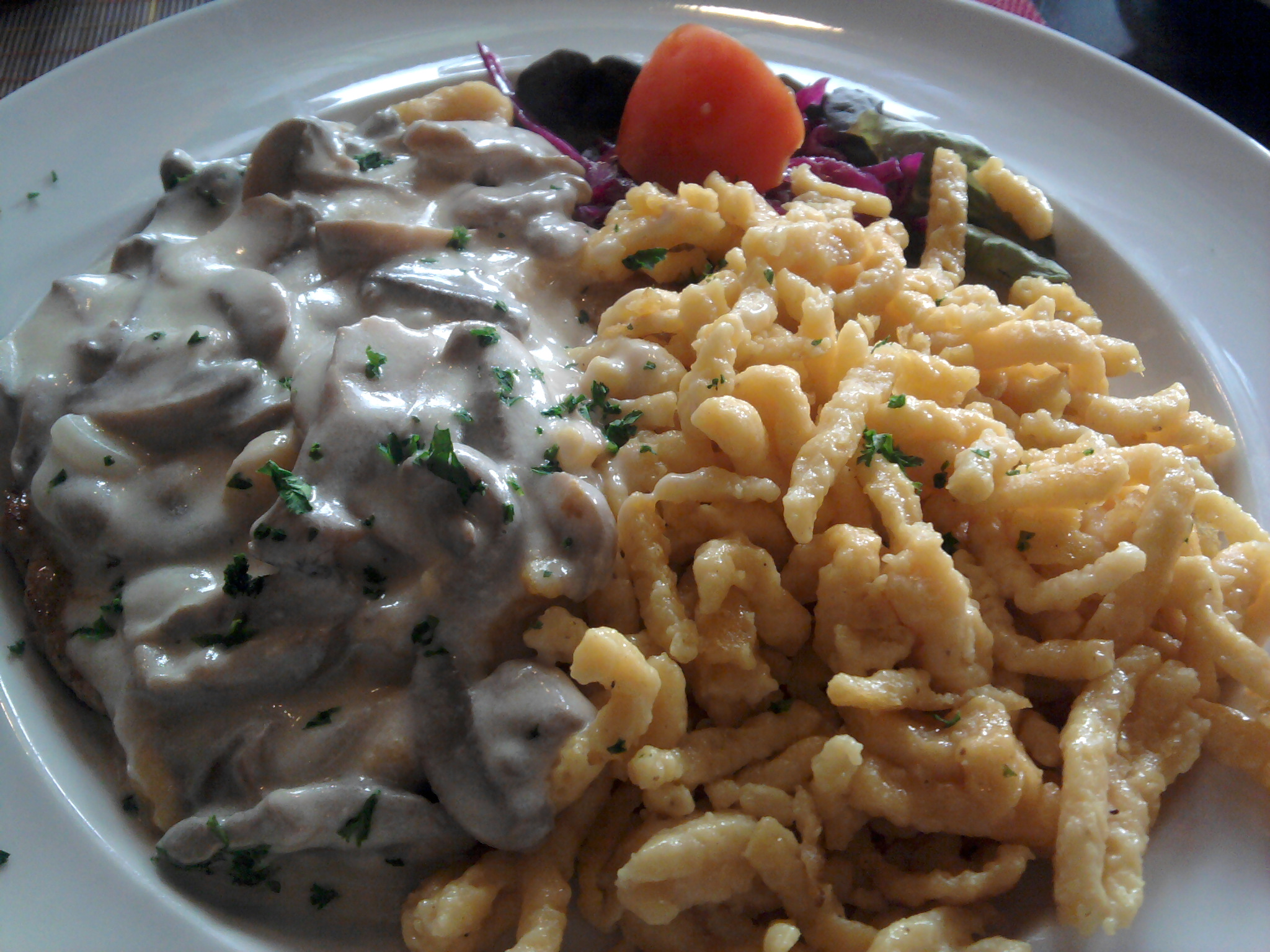 Jägerschnitzel: "Hunter's schnitzel" in one of the Heidelberg restaurant, Germany.